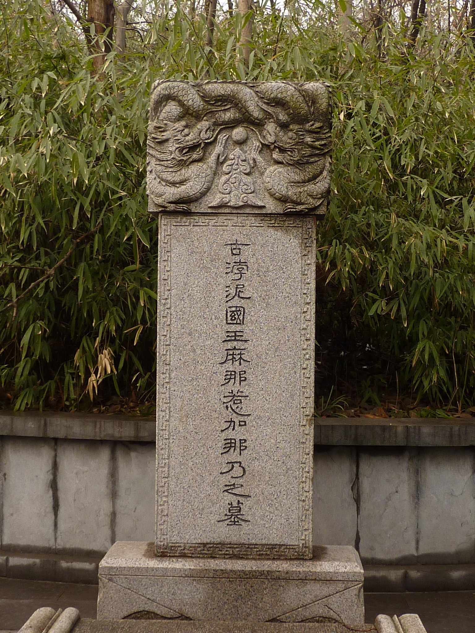 The actual Tomb of the Sultan of Brunei in Nanjing, with a stele on top. One gets here after passing by the sultan's bixi (stone tortoise) and along the shendao (spirit way).